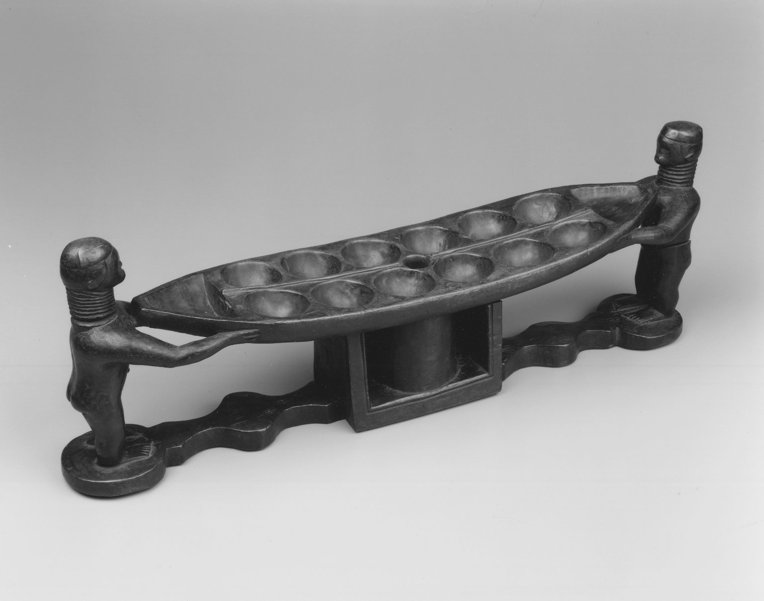 The object is a boat-shaped board with 12 playing cups and one triangular "capture" cup at either end. The playing area stands on a rectangular box which originally held playing seeds. The two ends are supported by a pair of male figures with ringed necks. The proper left leg of one of the figures is missing.